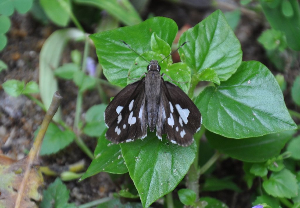 Udaspes folus